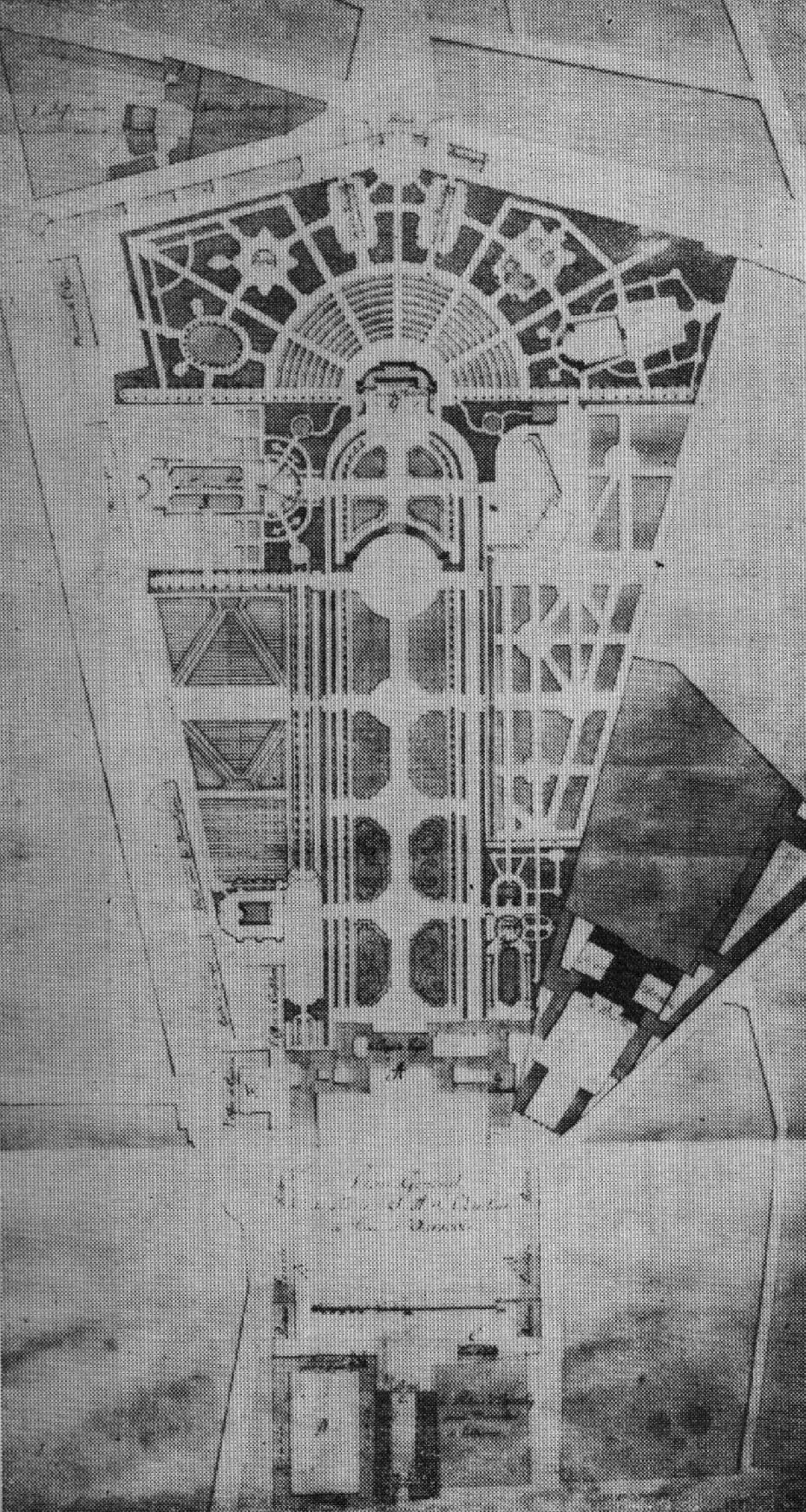 Saxon Garden in Warsaw